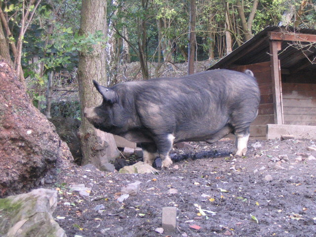 Mr Brown. Mr Brown, a Berkshire boar at Blists Hill, who got together with Rita Hayworth, a Tamworth sow, to produce a litter of nice reddish-brown piglets 571039.